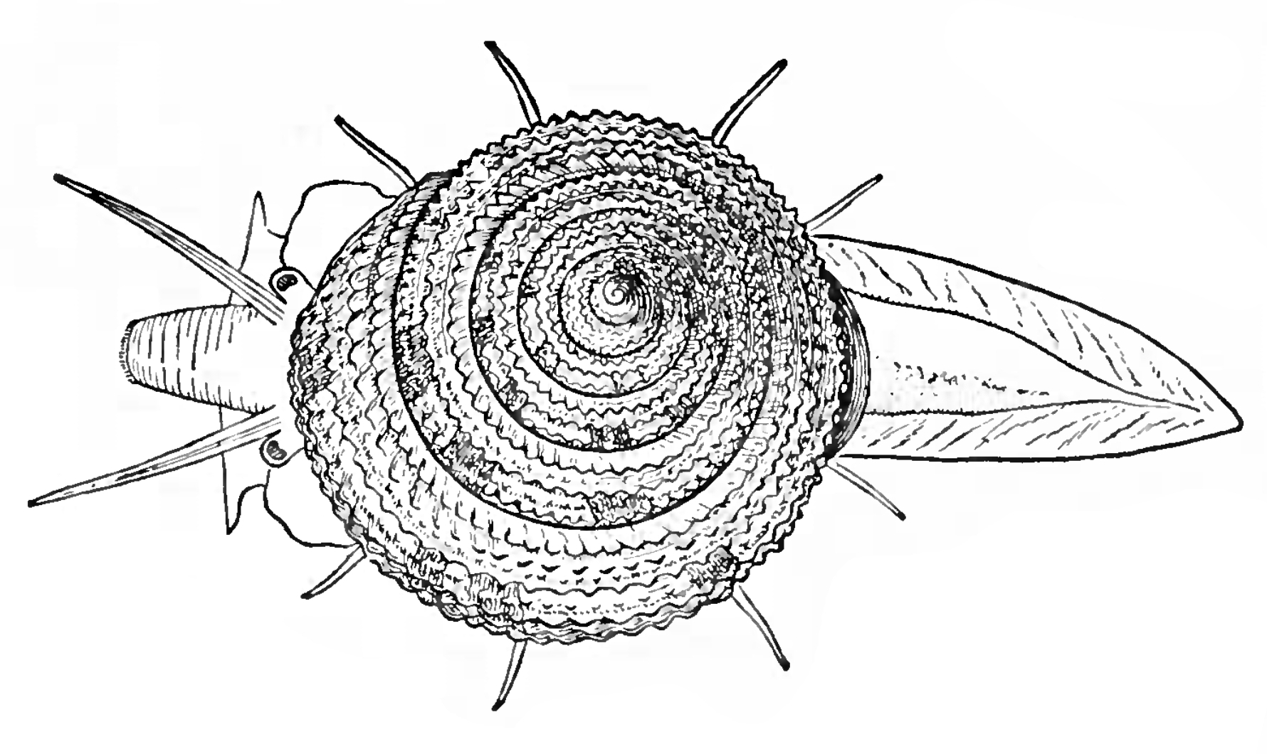 Drawing of dorsal view of living animal and shell Calliostoma bairdii, a deep-water gastropod, dredged in the Atlantic Ocean at a depth of from 56 to 640 fathoms (102 m - 1170 m).